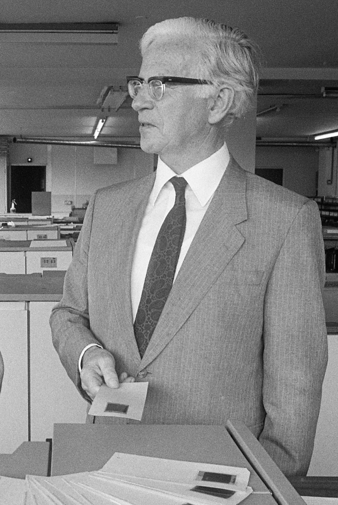 Ronald Kay with aperture cards holding university application forms